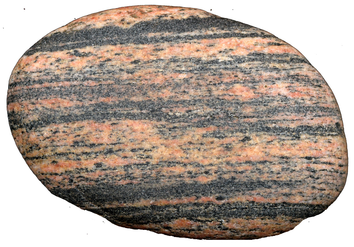 Gneis